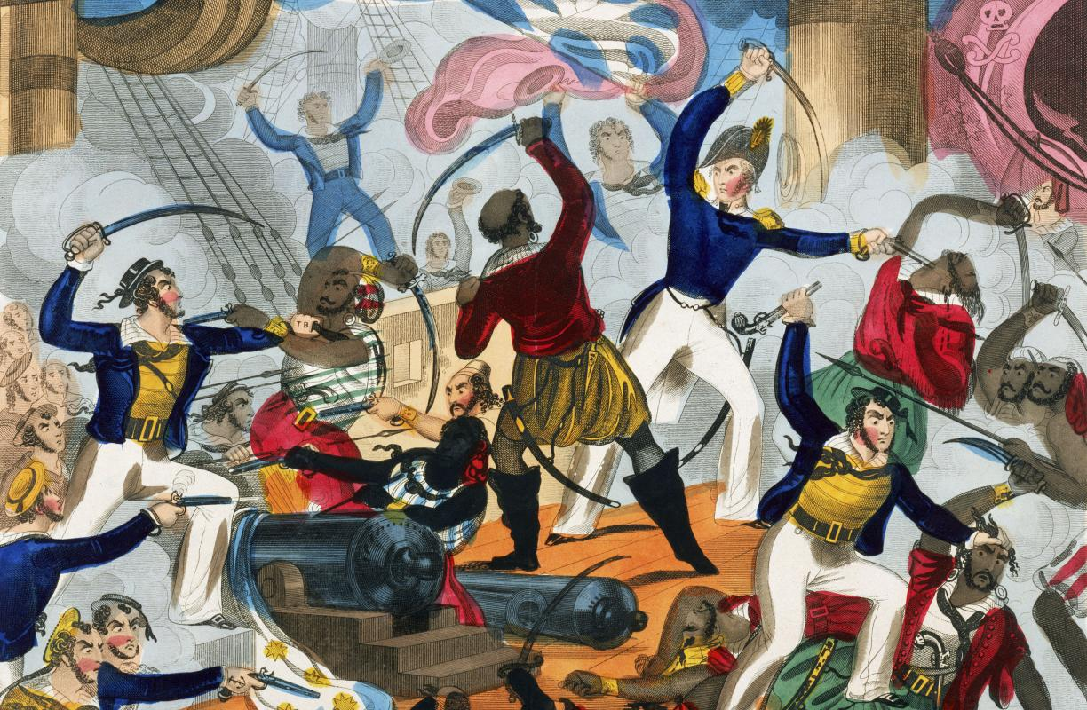 Hand to hand fighting between British sailors and Algerian pirates